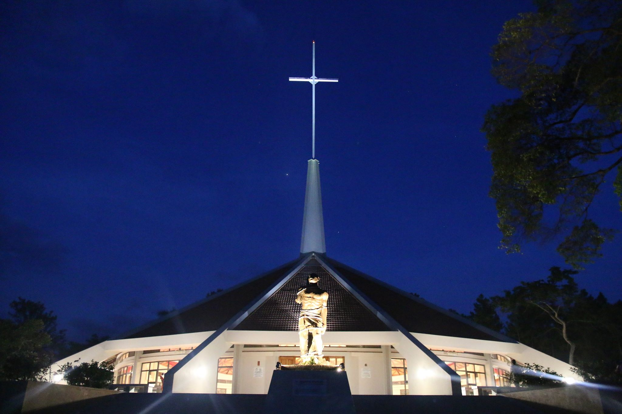 Munyonyo Uganda Martyrs Catholic Church at night